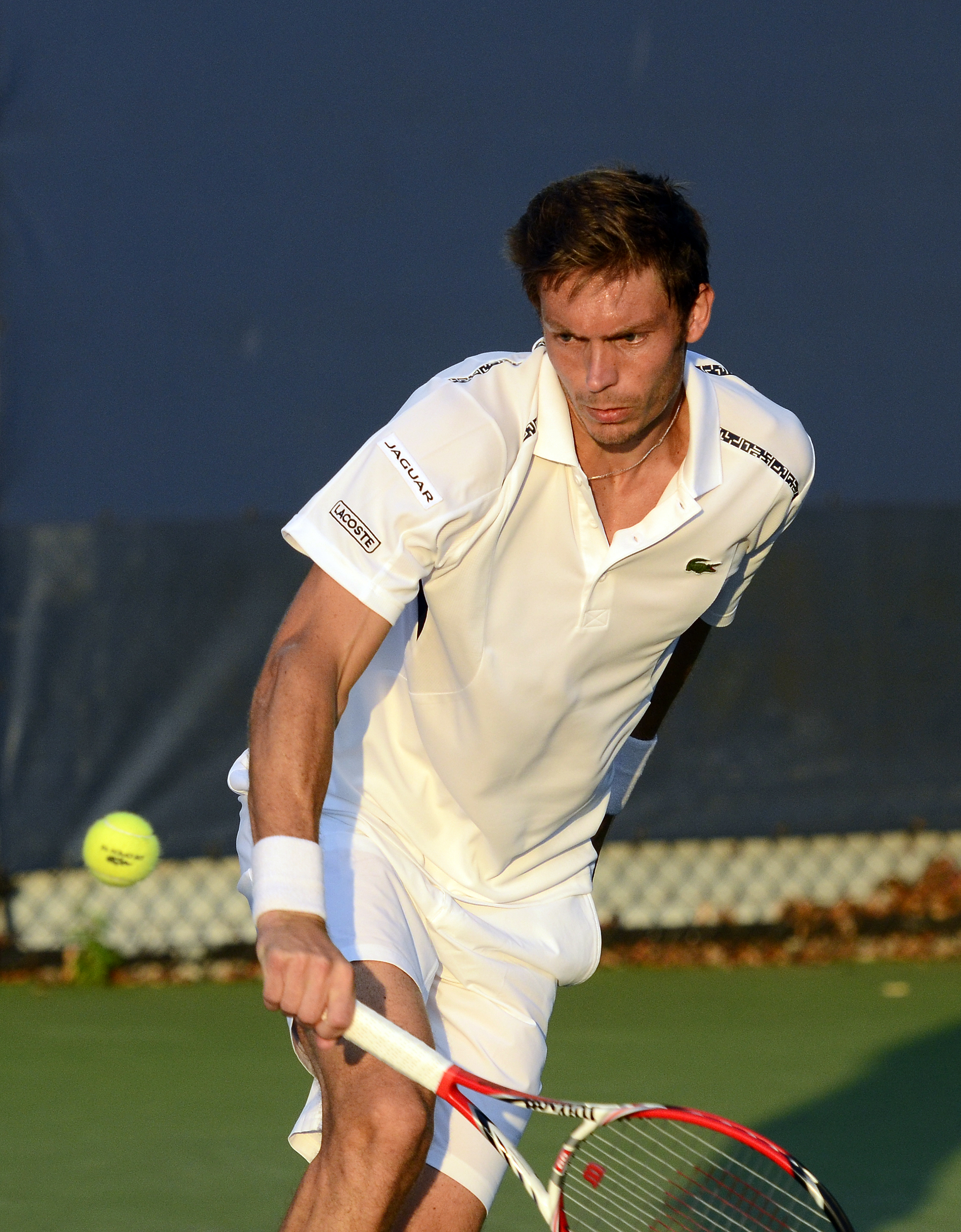 August 26, 2014 Queens, NY Michael Llodra and Nicolas Mahut (FRA) def. Peter Kobelt and Hunter Reese (USA)